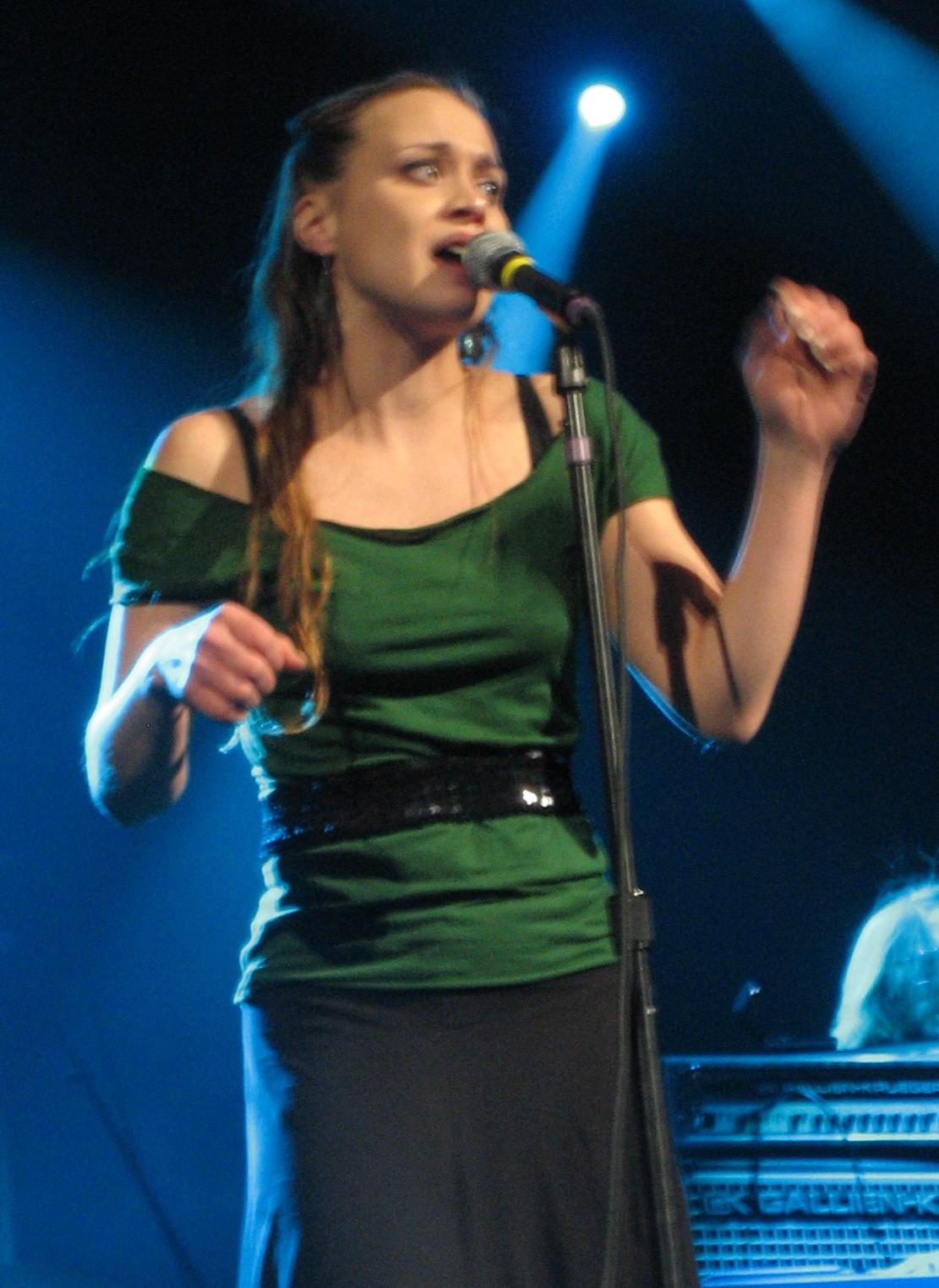 Fiona Apple performing at KeyArena in Seattle, Washington, United States